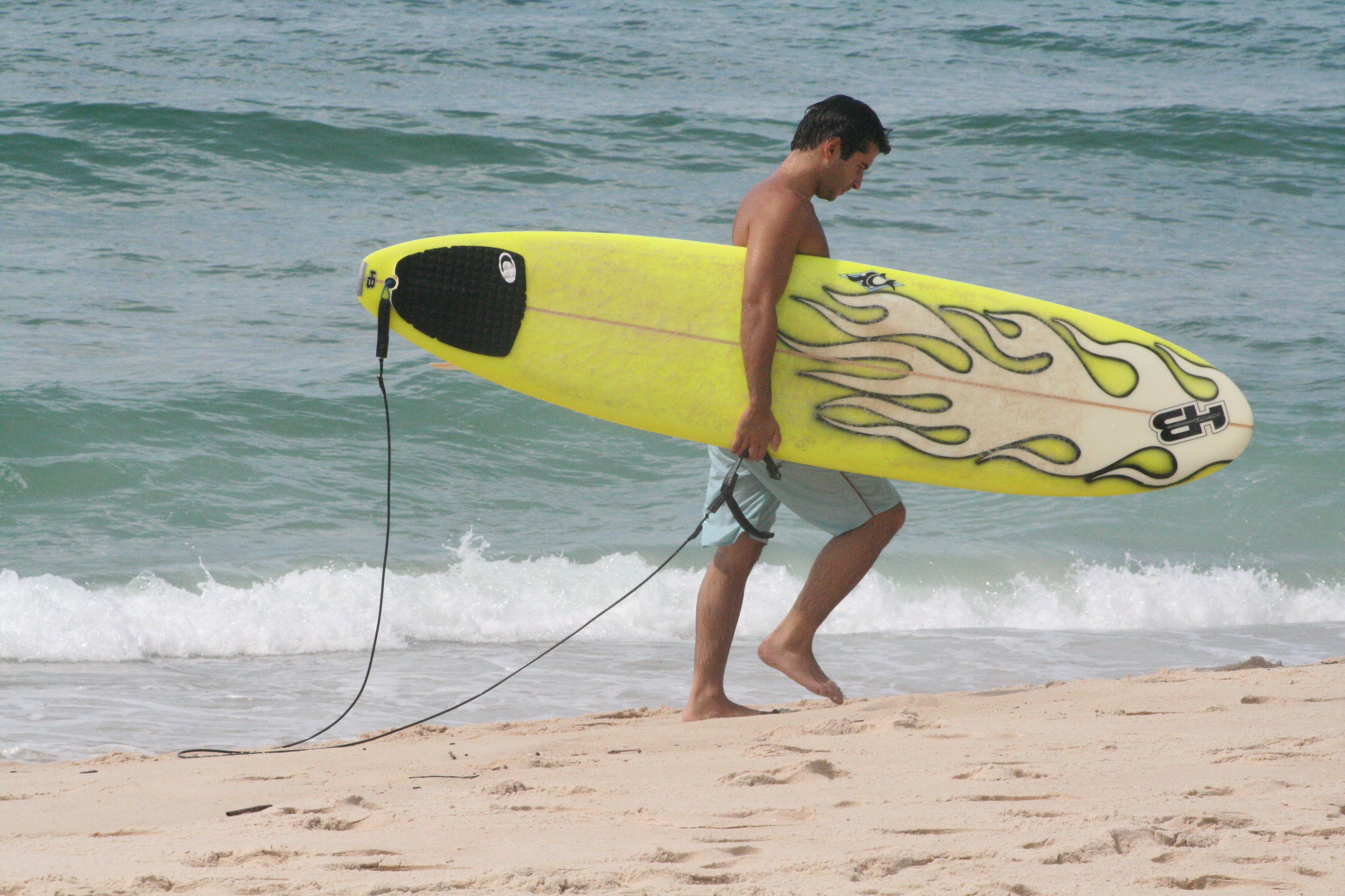 Surf, Surfing: Surfer carrying a longboard, shown equipped with a safety leash. Photo by pravin, 2007.